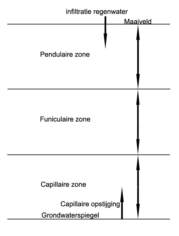 Capillary fringe